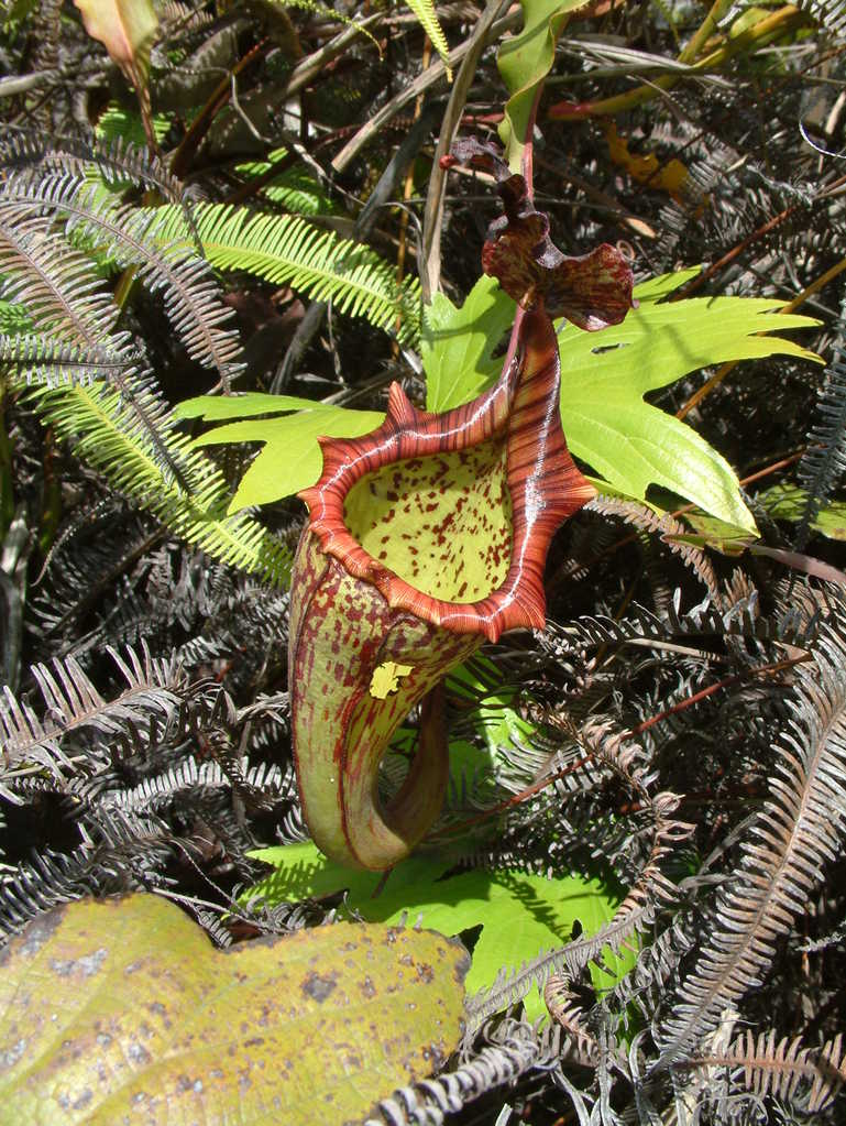 Nepenthes maxima from Sulawesi (700 m altitude)